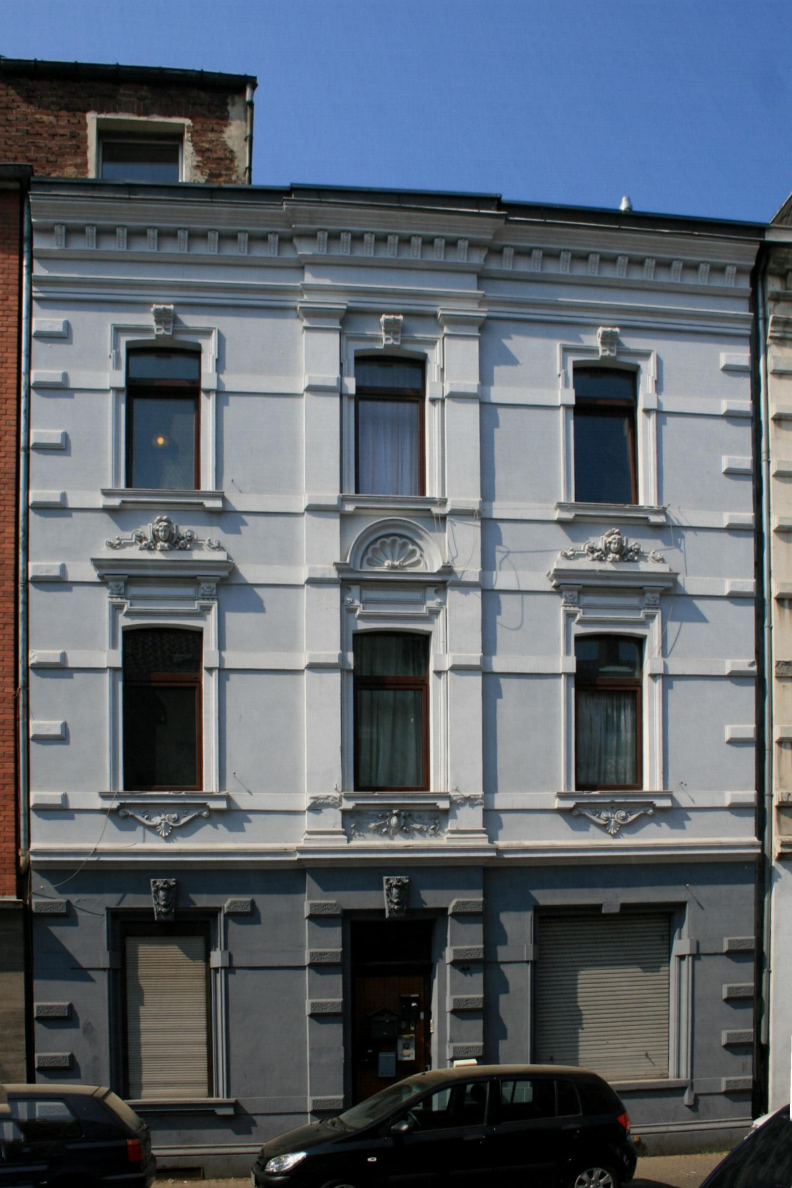 Cultural heritage monument No. 1/126 in Düren